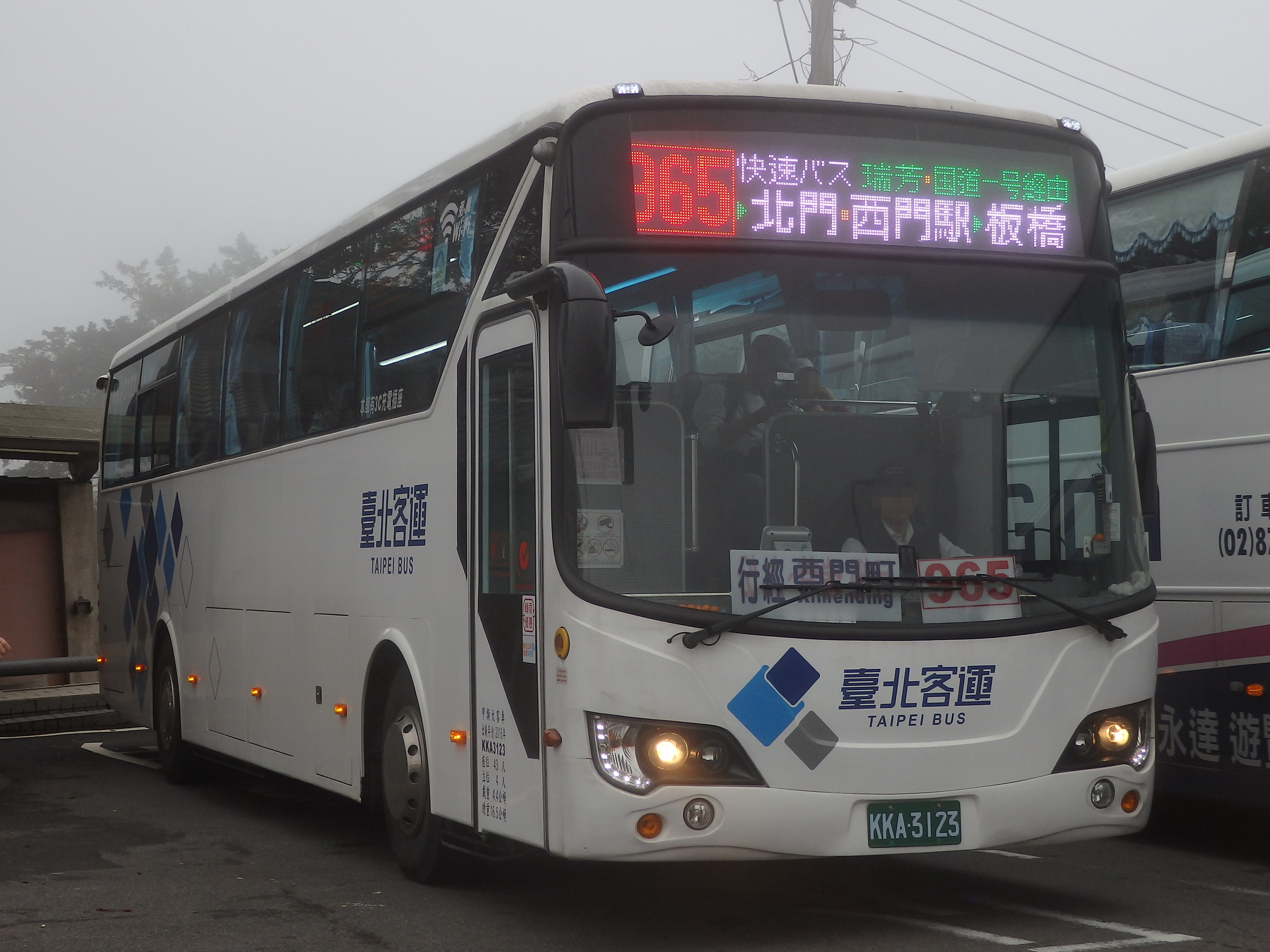 Taipei Bus No.965(New Taipei City Bus) Hino/Xin sheng Type RM8JSVU-SSF No.KKA-3123 Stopping at Jinguashi